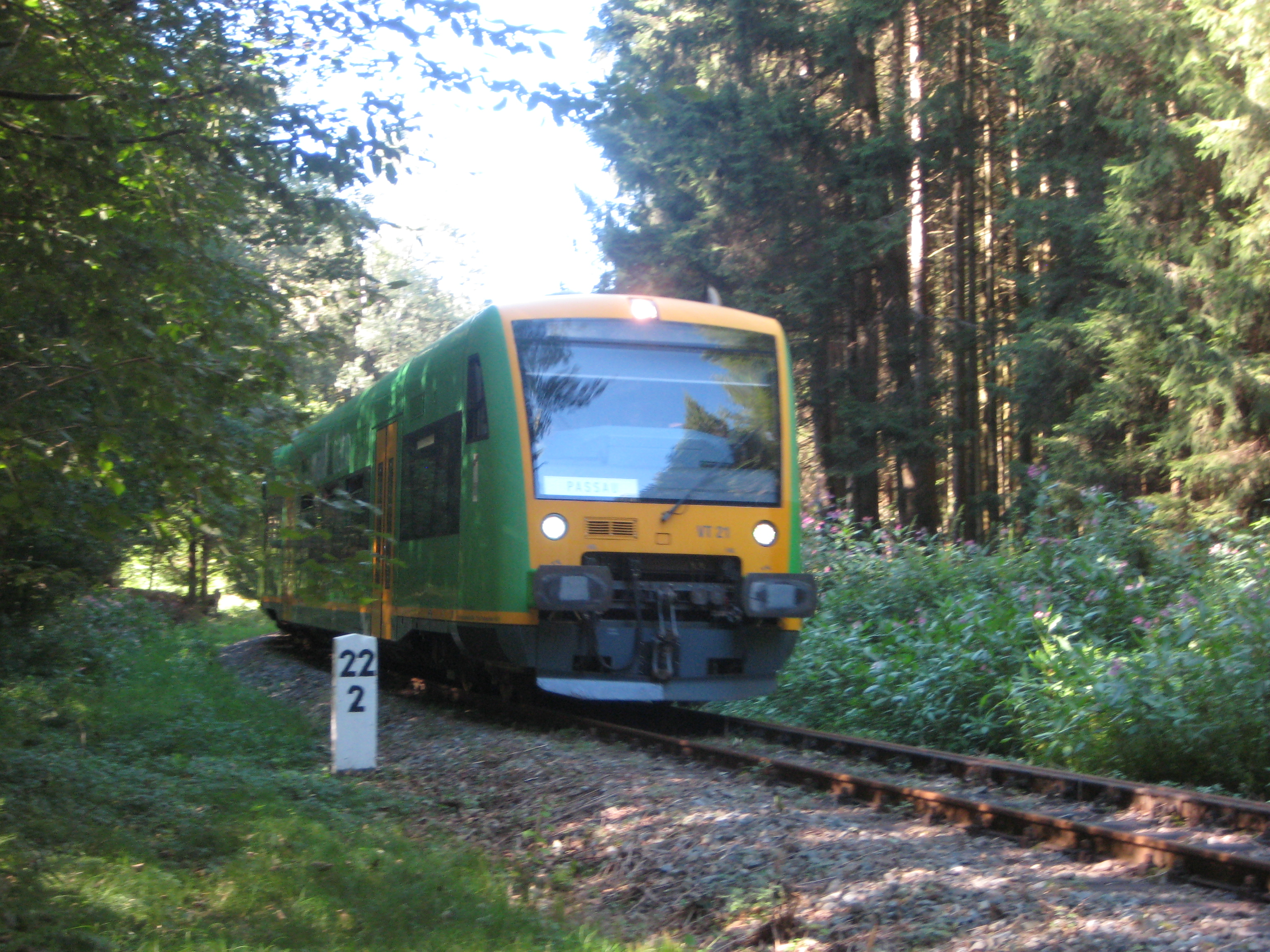 Ilz Valley Railway near Kalteneck